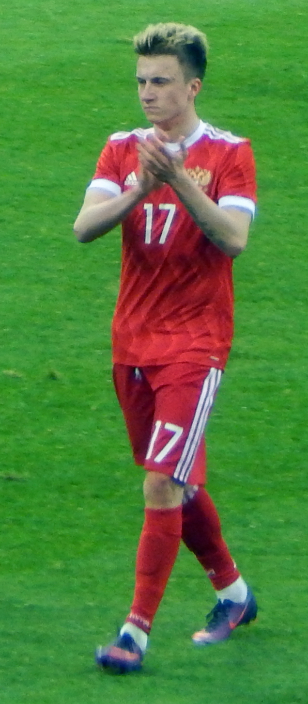 This photo was taken on March 28, 2017 during the exhibition game between Russia and Belgium. That game was held in Adler (City of Sochi) at the Fisht stadium.